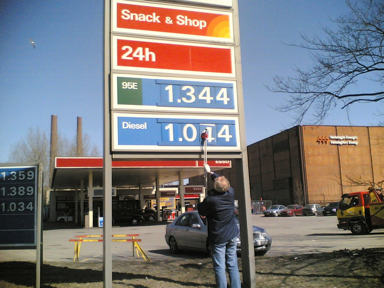 An employee updating the prices at Esso petrol station in Sörnäinen, Helsinki, Finland.